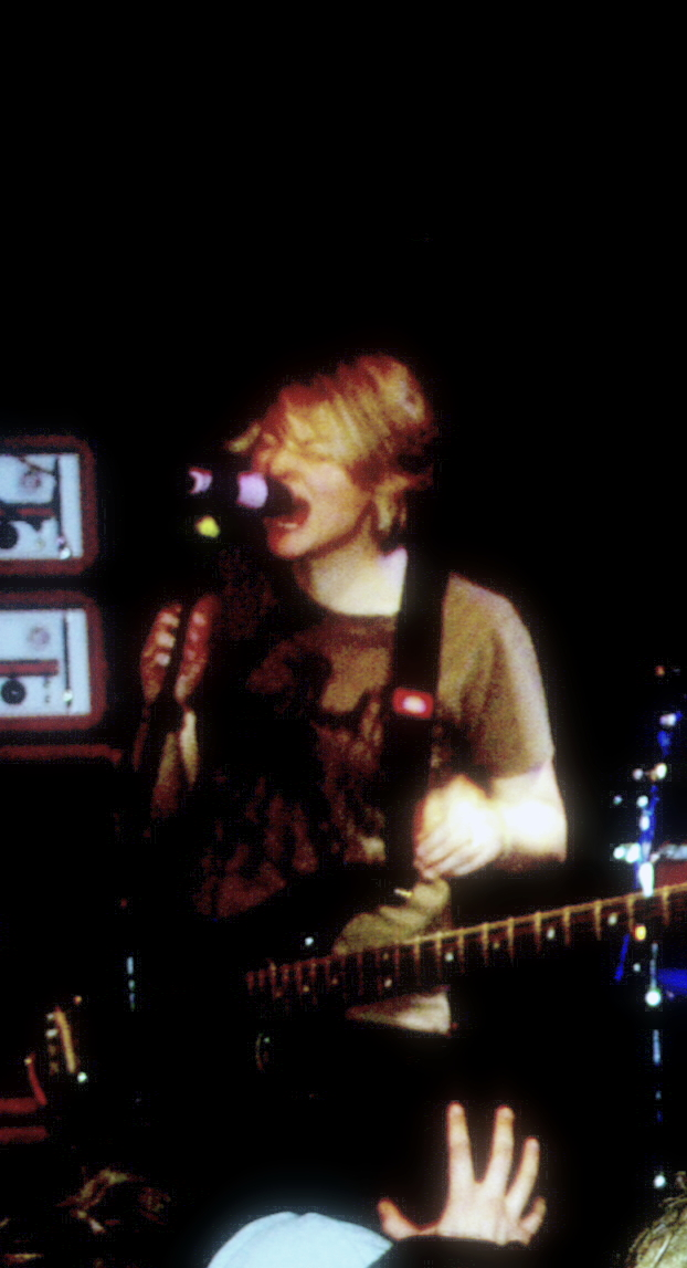 Circle Takes the Square's singer and bassist Kathy Coppola performing in Kulturhuset, Stockholm, Sweden in 2012.